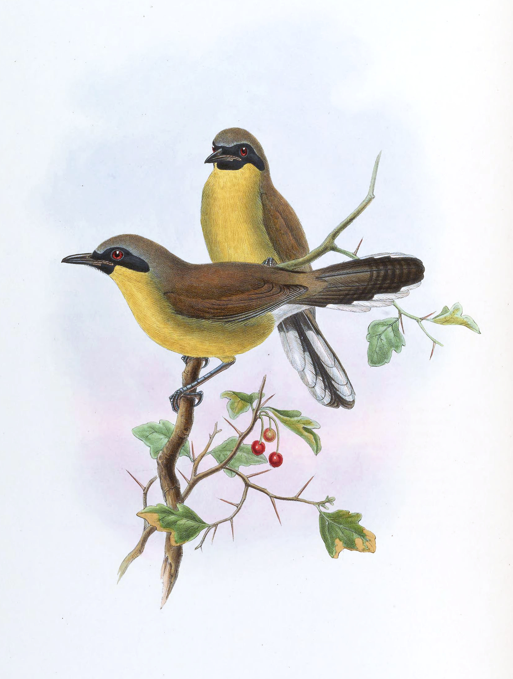 Yellow-throated Laughingthrush Garrulax galbanus Godwin-Austin